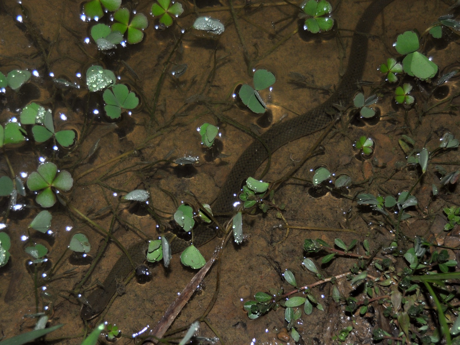 Plumbeous water-snake, Enhydris plumbea. From Karawang, West Java. Between aquatic weeds in the paddyfield.